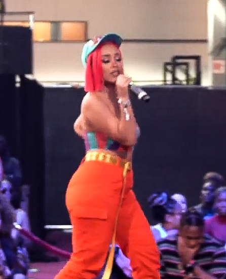 Doja Cat performing at the BET Experience in August 2019